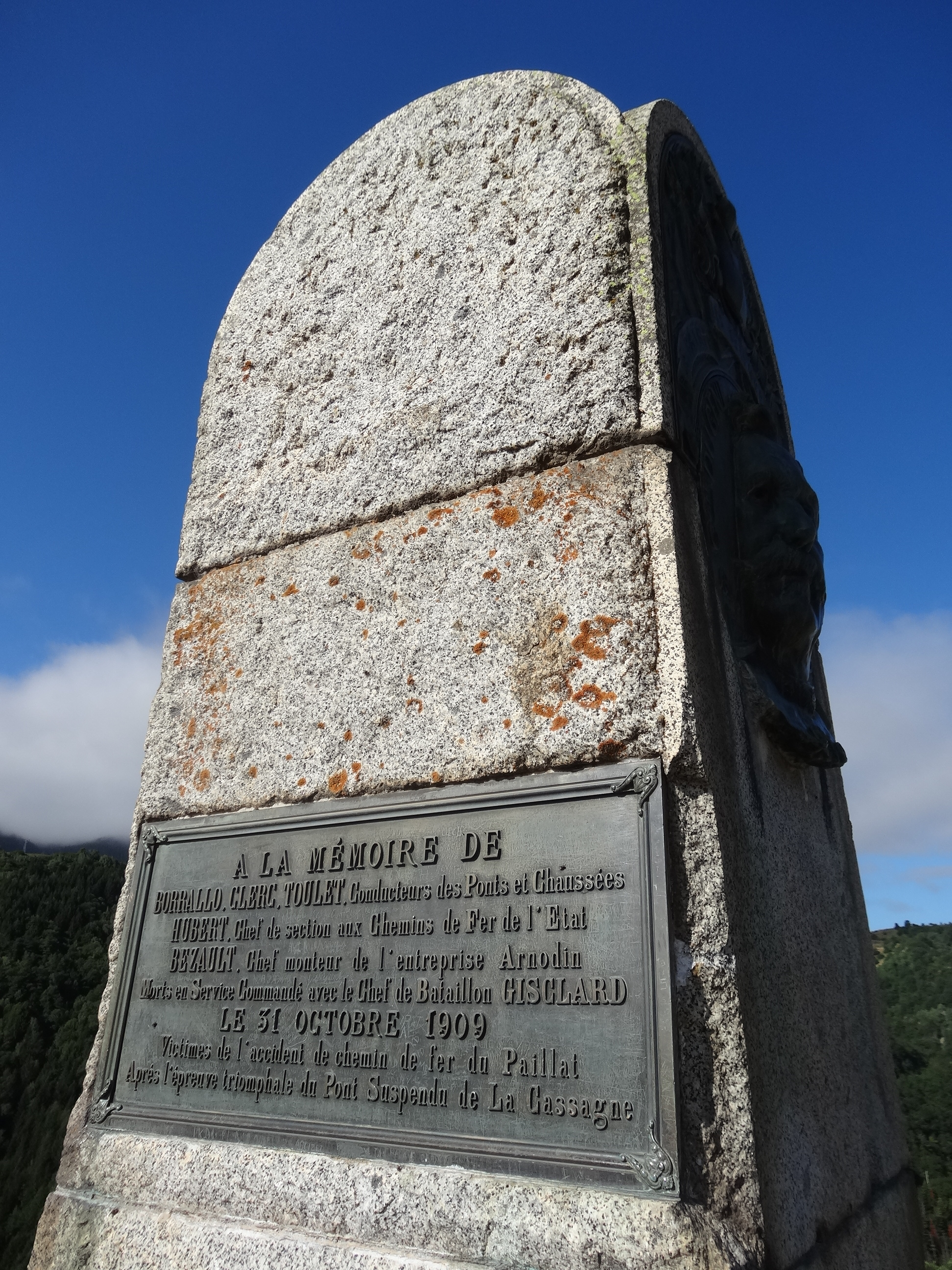 Viewpoint above Pont Gisclard (Pyrénées-Orientales)